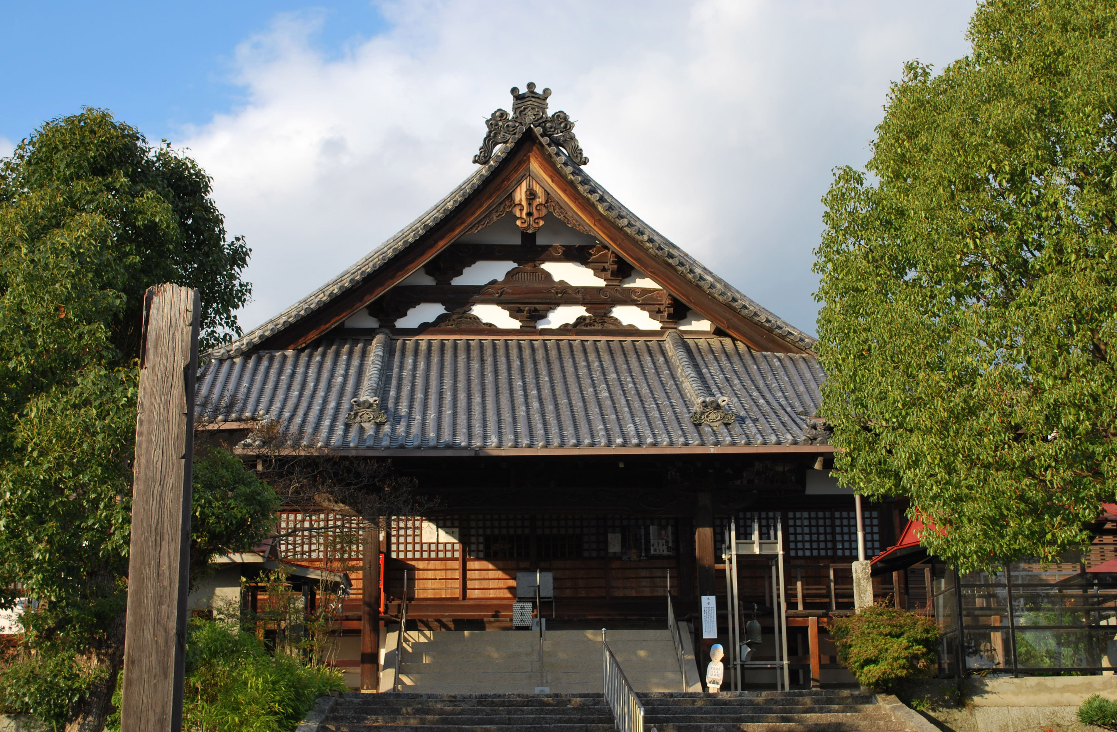 Main temple, Hōkai-in